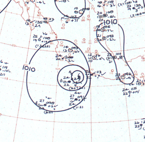 Surface weather analysis of Hurricane Tara on November 11, 1961.